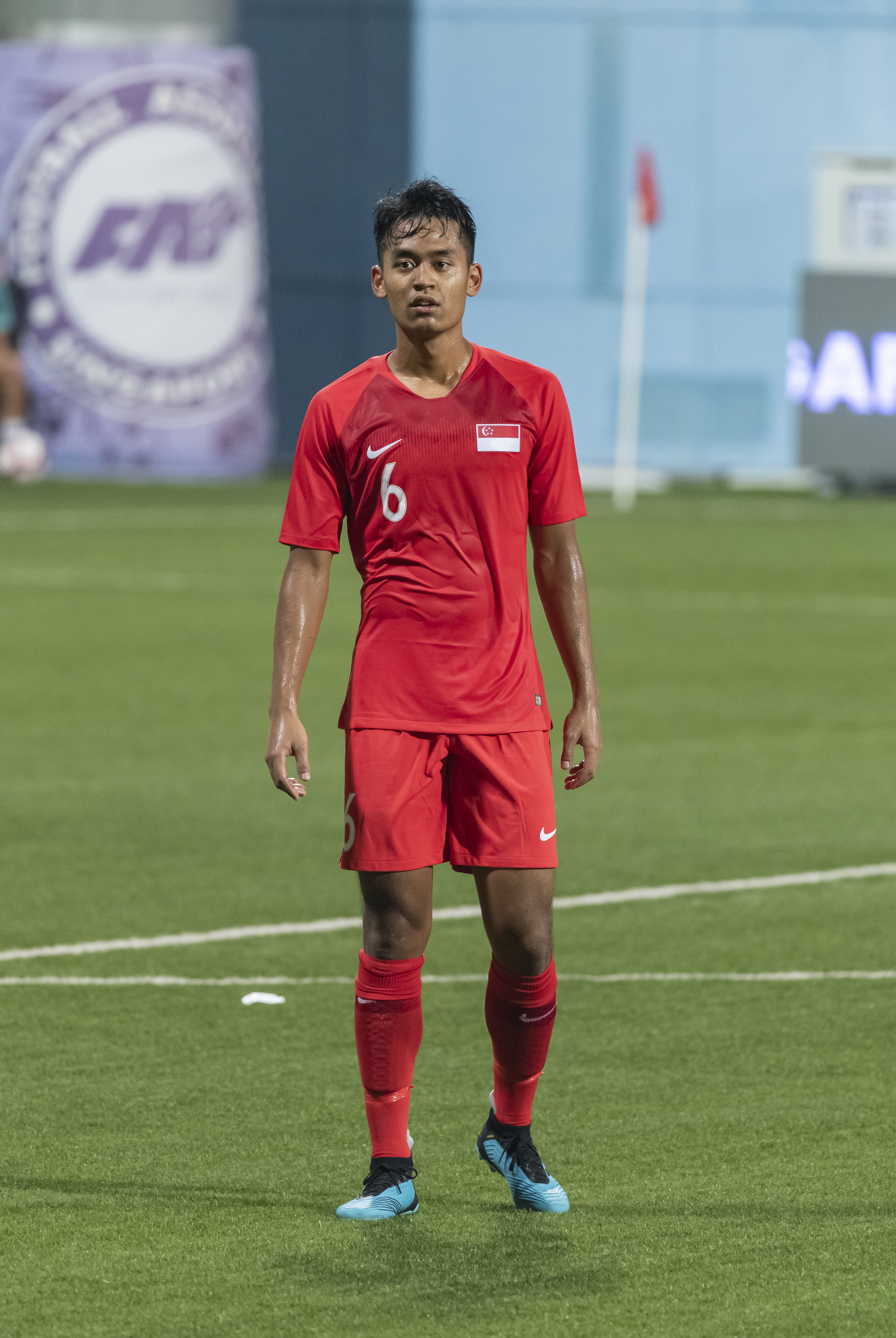 Amirul Adli Azmi Singapore national football team palestine Jalan Besar 2019